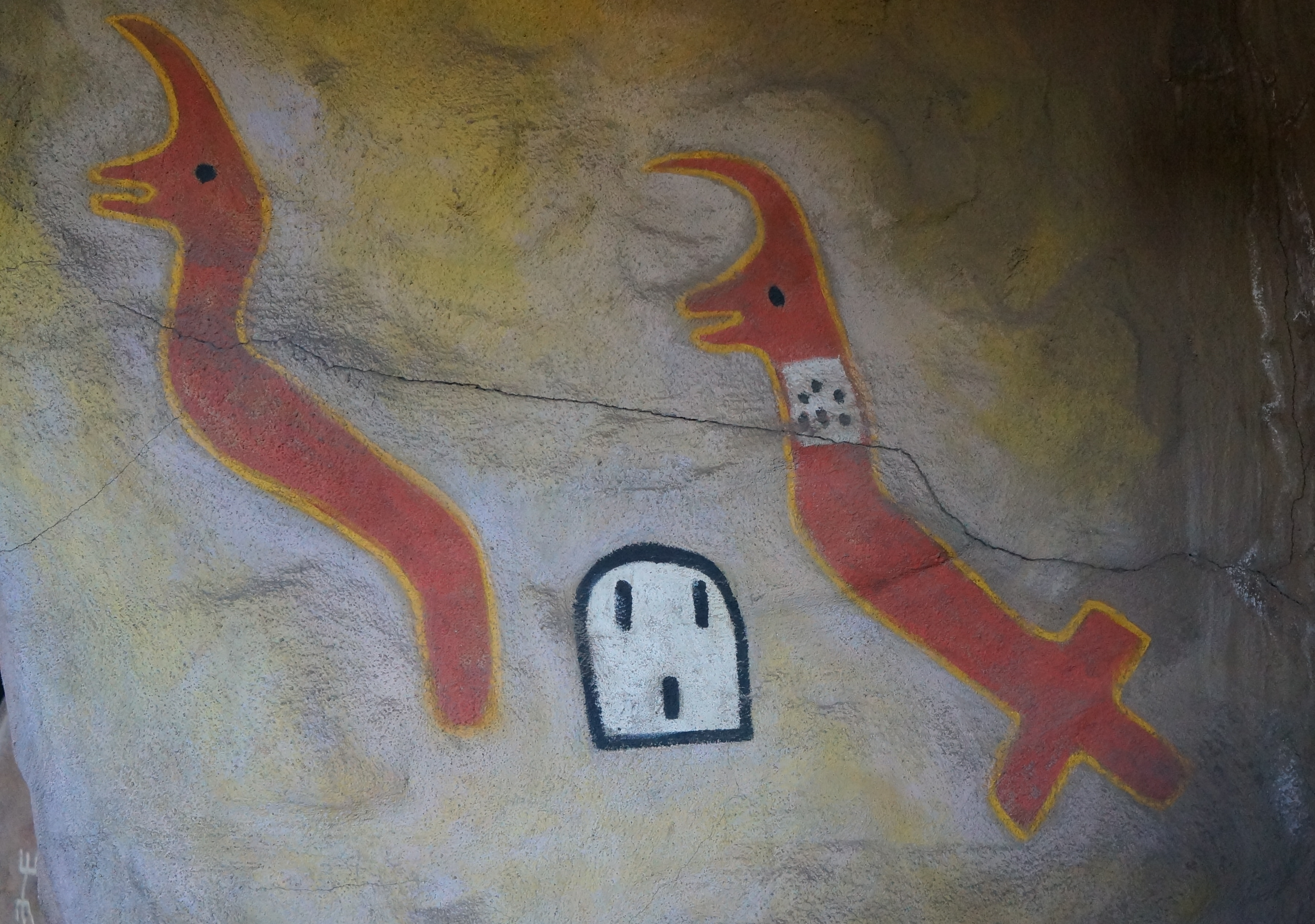 Desert View Watchtower Historic District Fred Kabotie (c.1900 - 1986) was a famous Hopi artist. Born Nakayoma (Day After Day) into the Bluebird Clan at Songo`opavi, Second Mesa, Arizona, Kabotie attended the Santa Fe Indian School, and learned to paint.(Source: Jessica Welton, Les Peintures murales de la Tour de guet, Plateau (Musée du nord de l'Arizona), automne / hiver 2005. ISBN 0897341325)